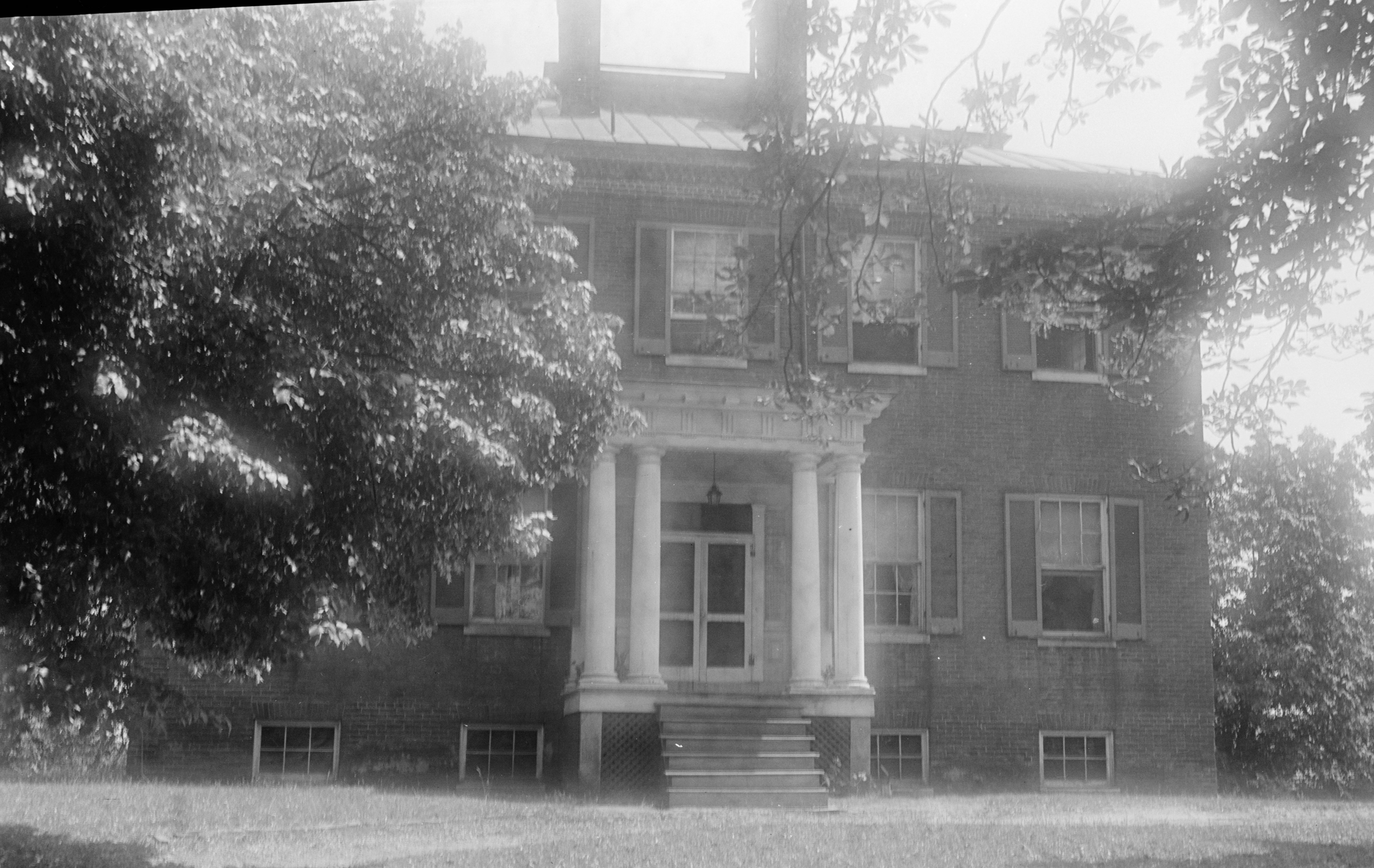 Historic American Buildings Survey Delos H. Smith, Photographer July 1940 - Mount Airy, Mount Airy Road, State Route 424 vicinity, Davidsonville, Anne Arundel County, MD